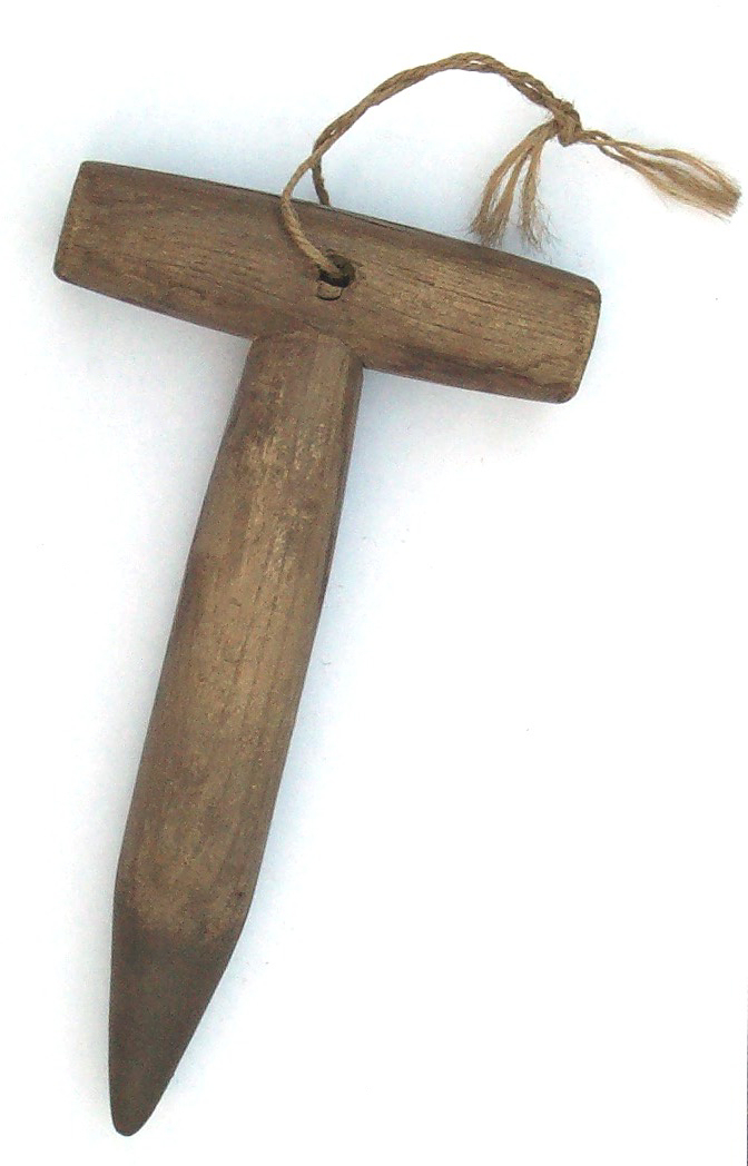 A small wooden T-handled dibber (also known as a "dibble").